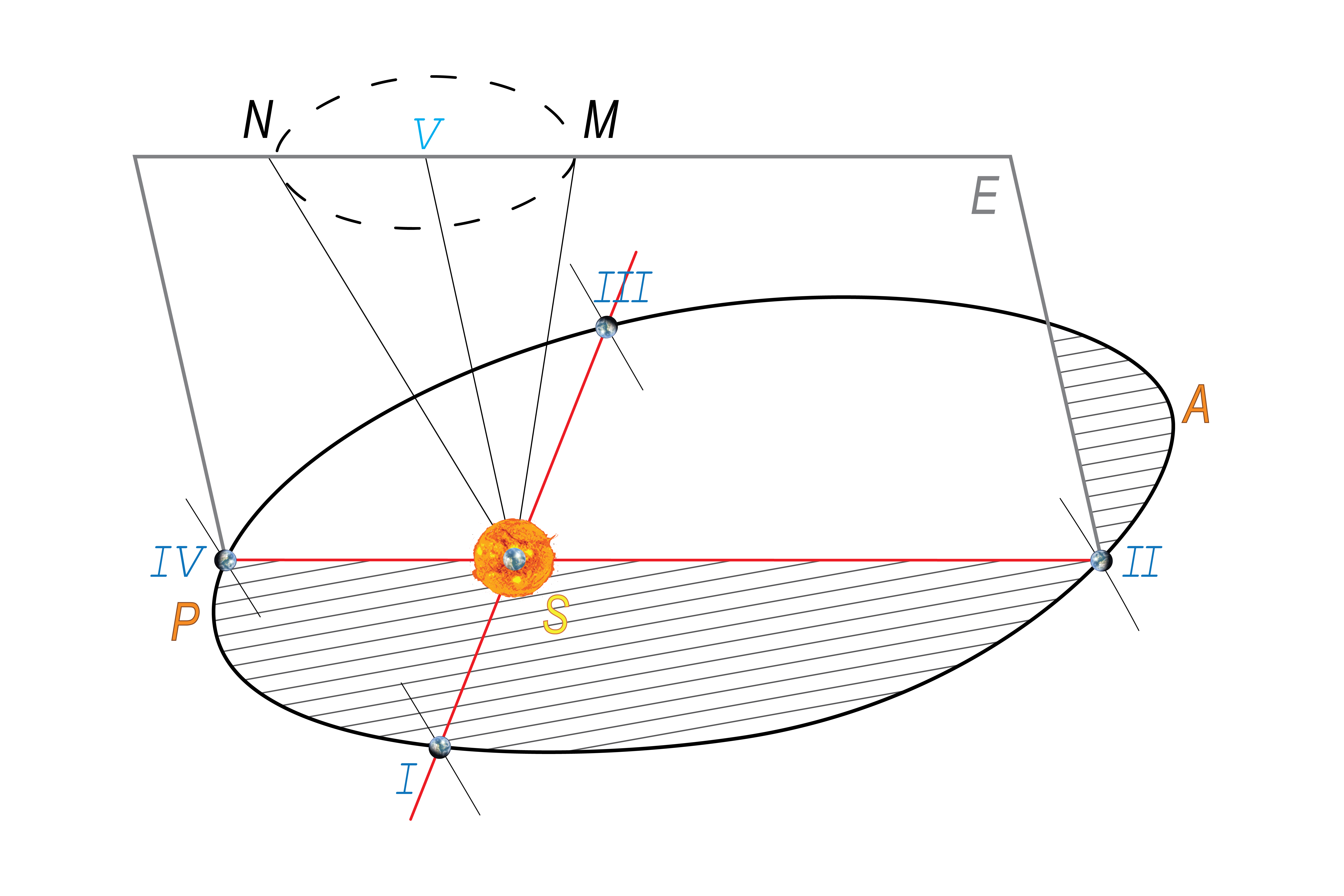 Three Milankovic’s cycles